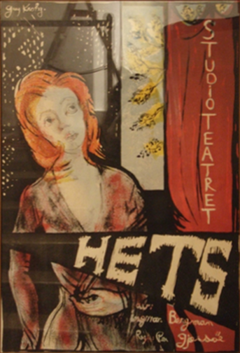 Guy Krohg's theatre poster for the Norwegian "Studioteatret"'s performance of Ingmar Bergman's drama "Torment", showing actress Randi Nordby. From Oslo Museum's collection.